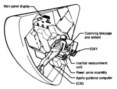 Diagram showing Apollo Command Module primary guidance system locations